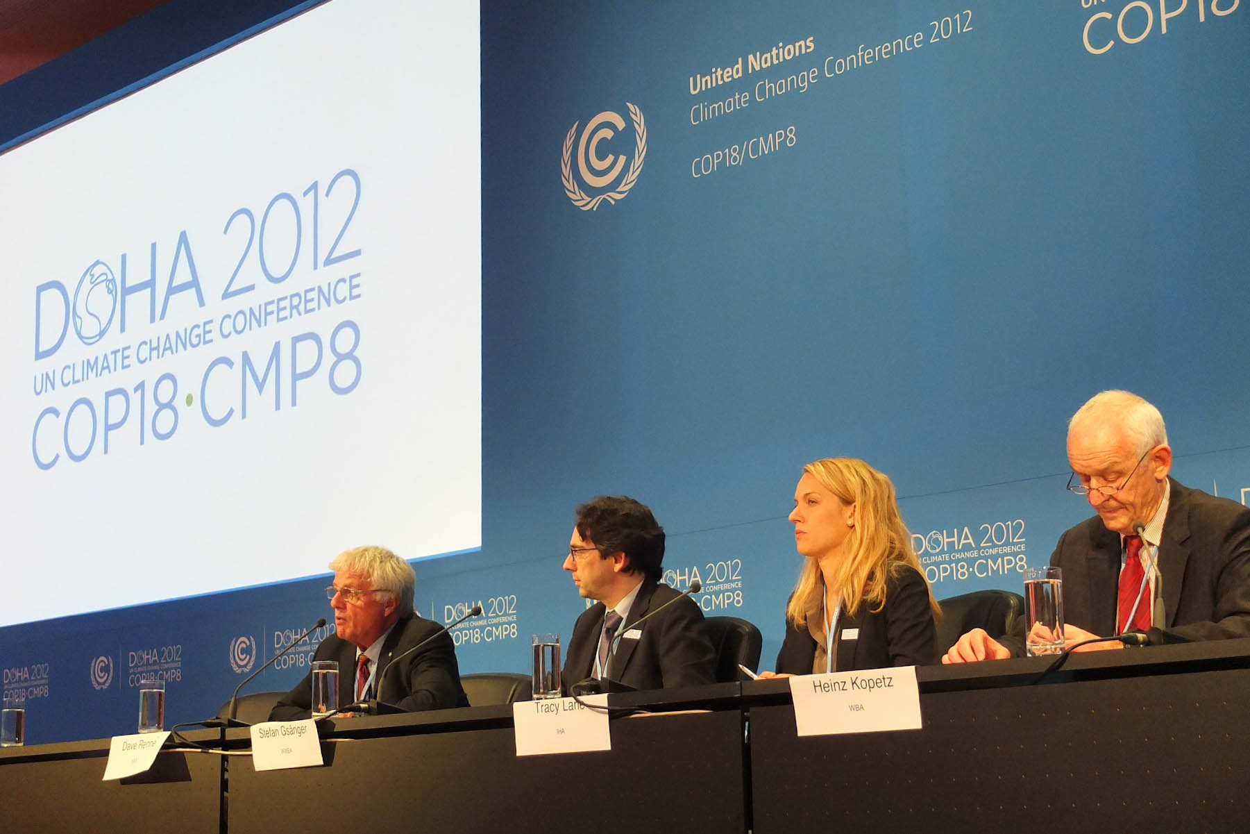 18th Conference of the Parties (COP 18) to the United Nations Framework Convention on Climate Change (UNFCCC) Doha, 26 November - 9 December 2012